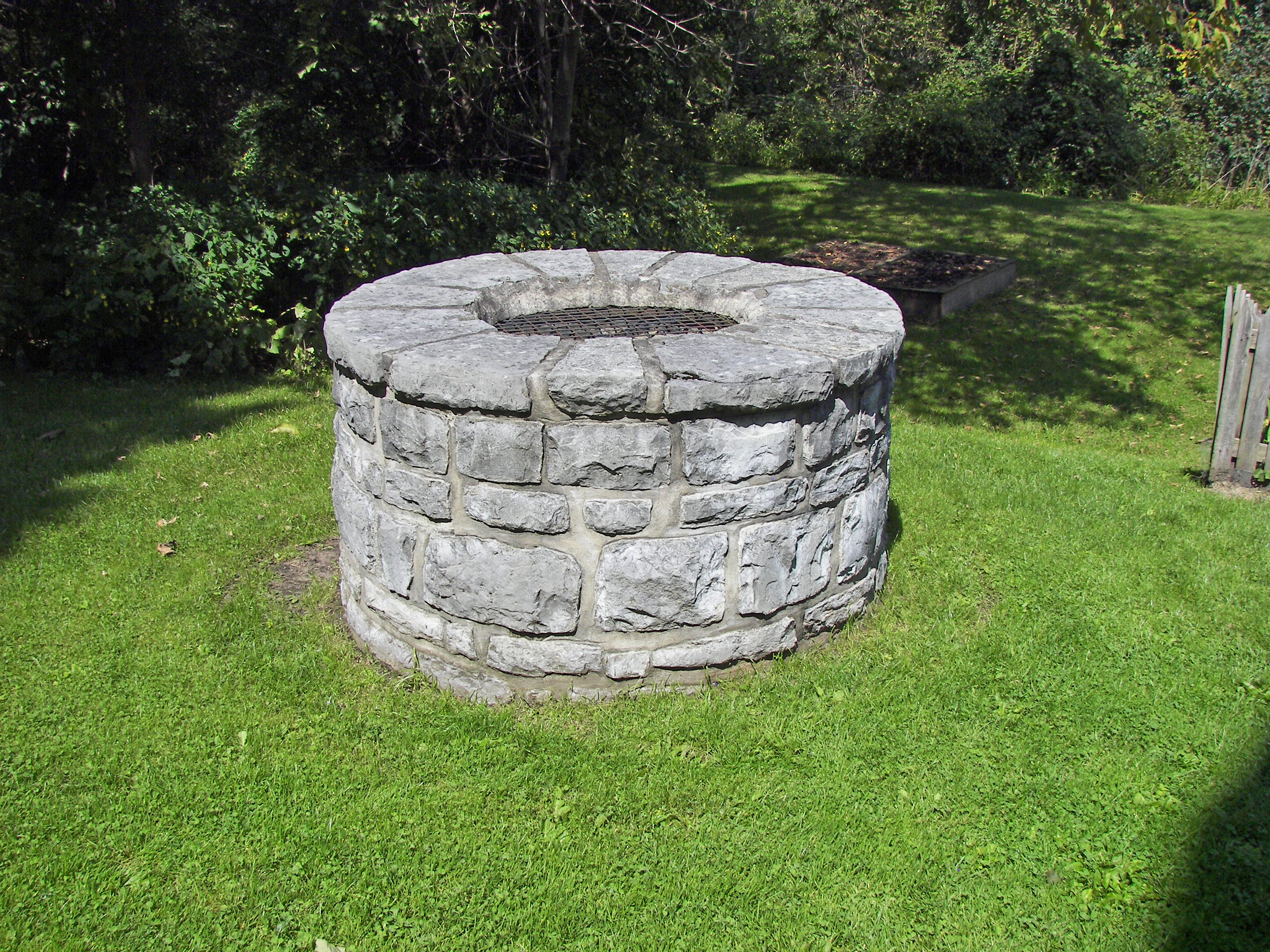 Water well for the Herkimer House in Danube, Herkimer County, New York.